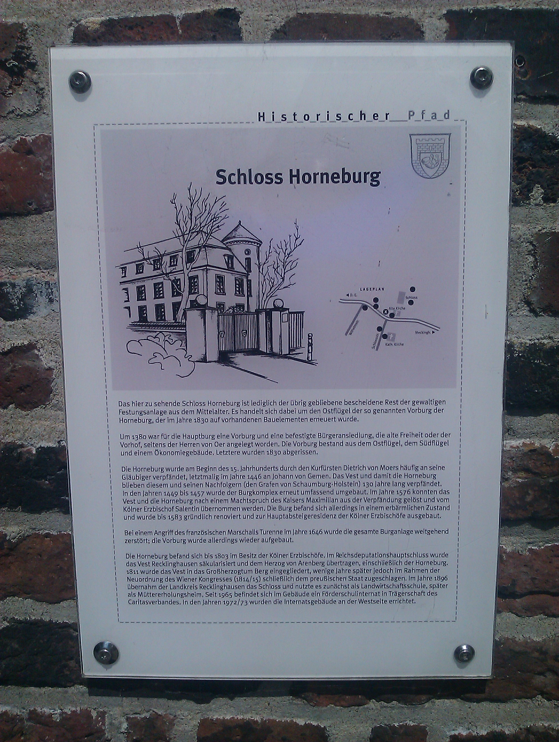 The panel No. 3 of the historical path of Horneburg.